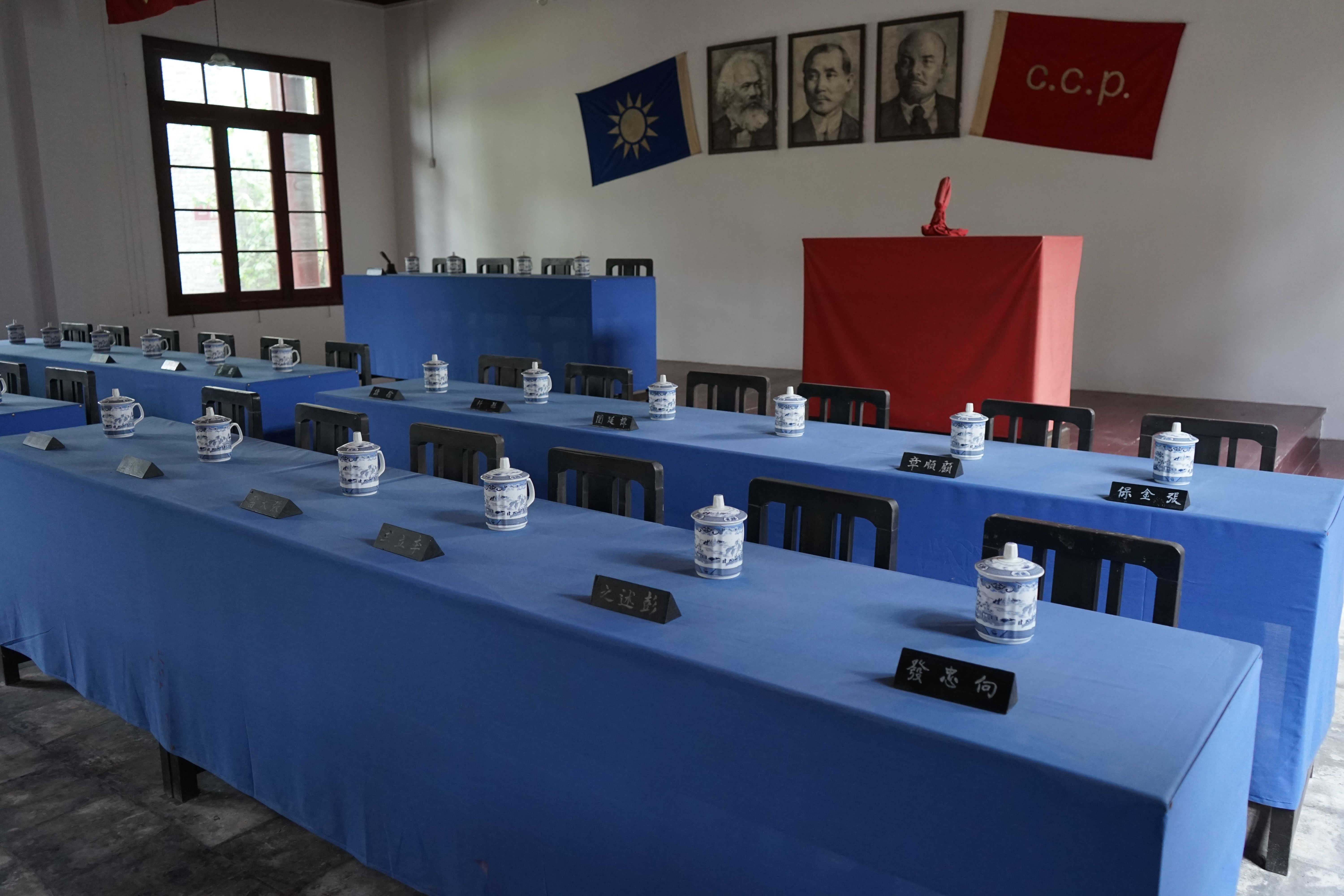 中共五大会场复原